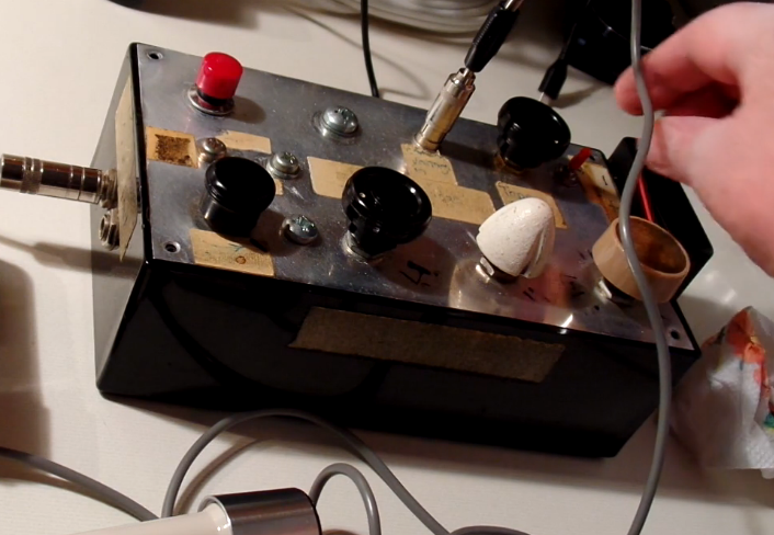 The booper